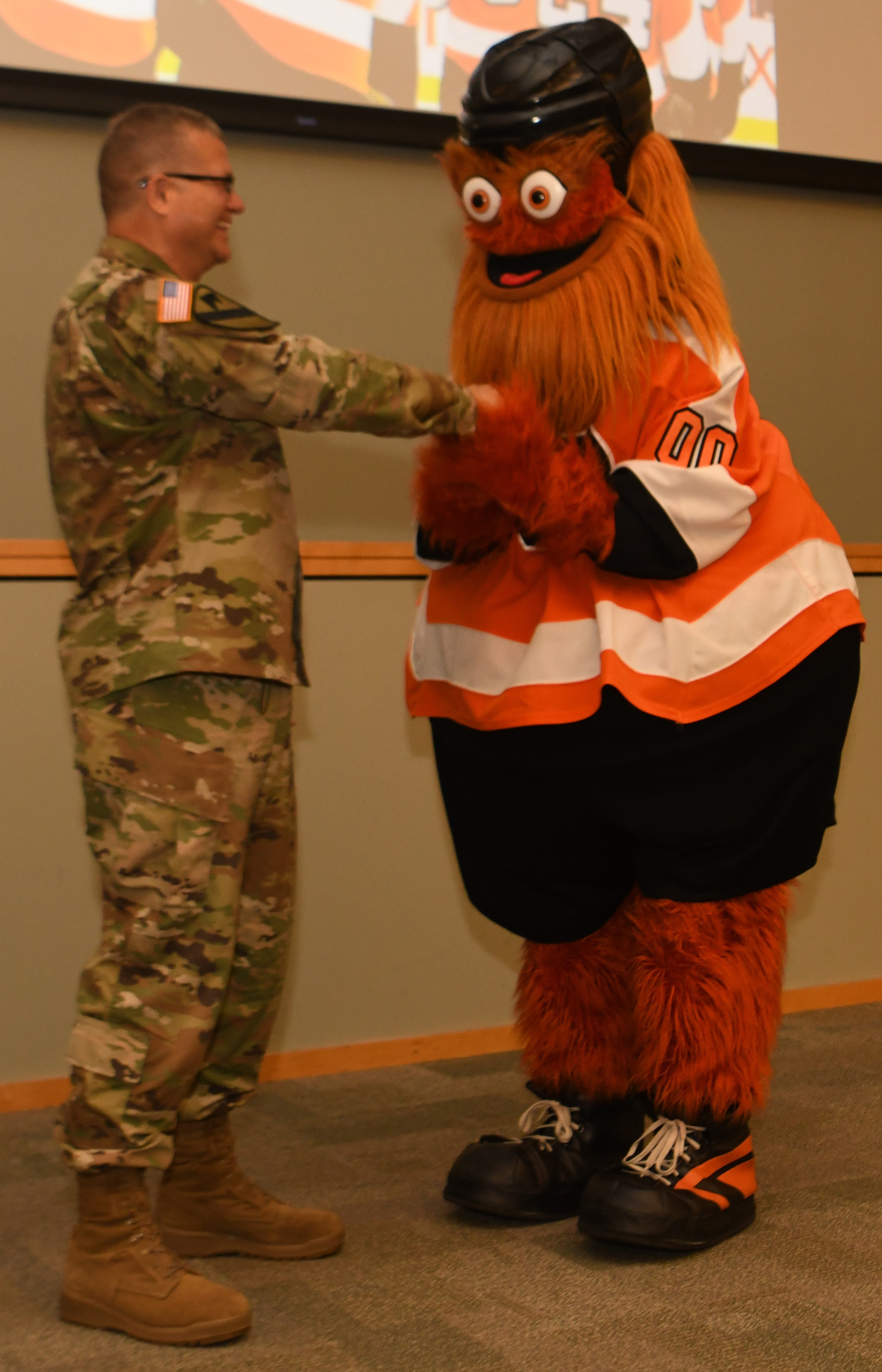 Gritty is the mascot for the Philadelphia Flyers, an NHL hockey team.